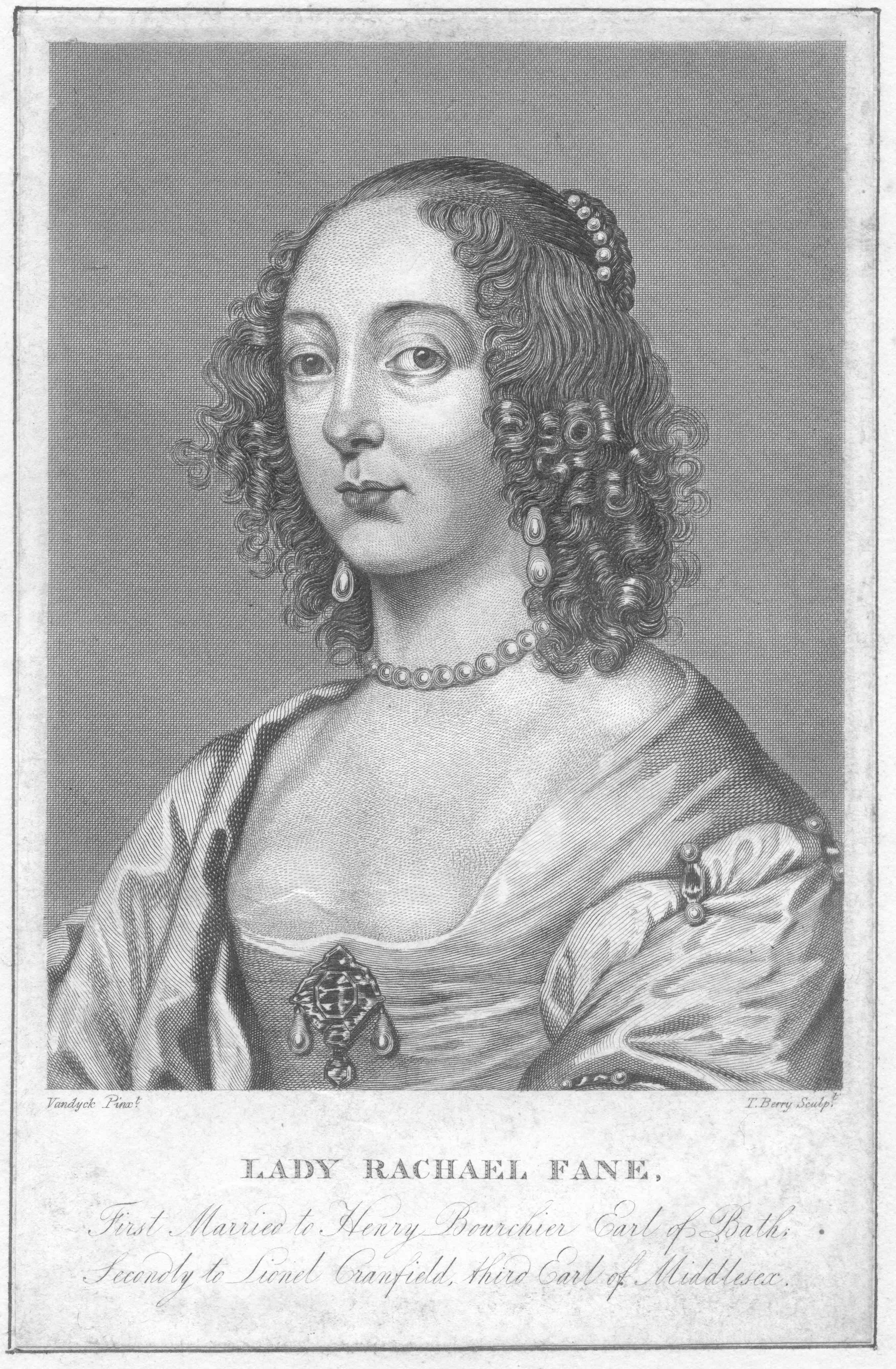 scan by R. de Salis of an engraving by T. Berry after Vandyck. Lady Rachael Fane, first married to Henry Bourchier Earl of Bath secondly to Lionel Cranfield, third Earl of Middlesex.Rodolph 23:35, 18 May 2007 (UTC)